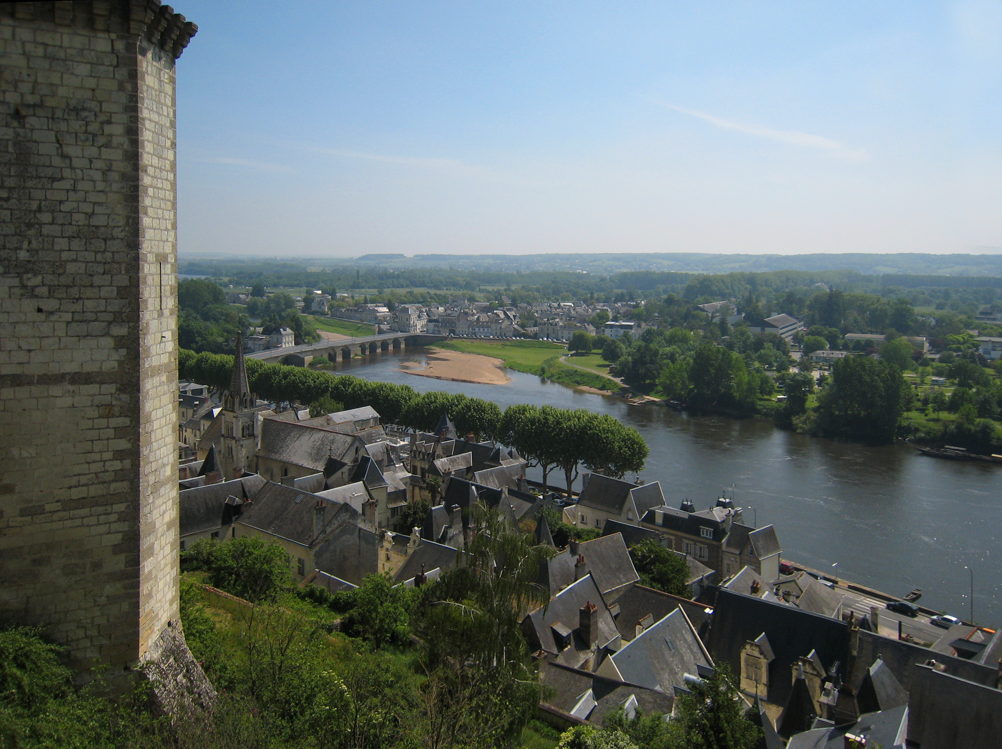 Village of Chinon, Indre-et-Loire, France - view at the town, situated on the banks of the Vienne River